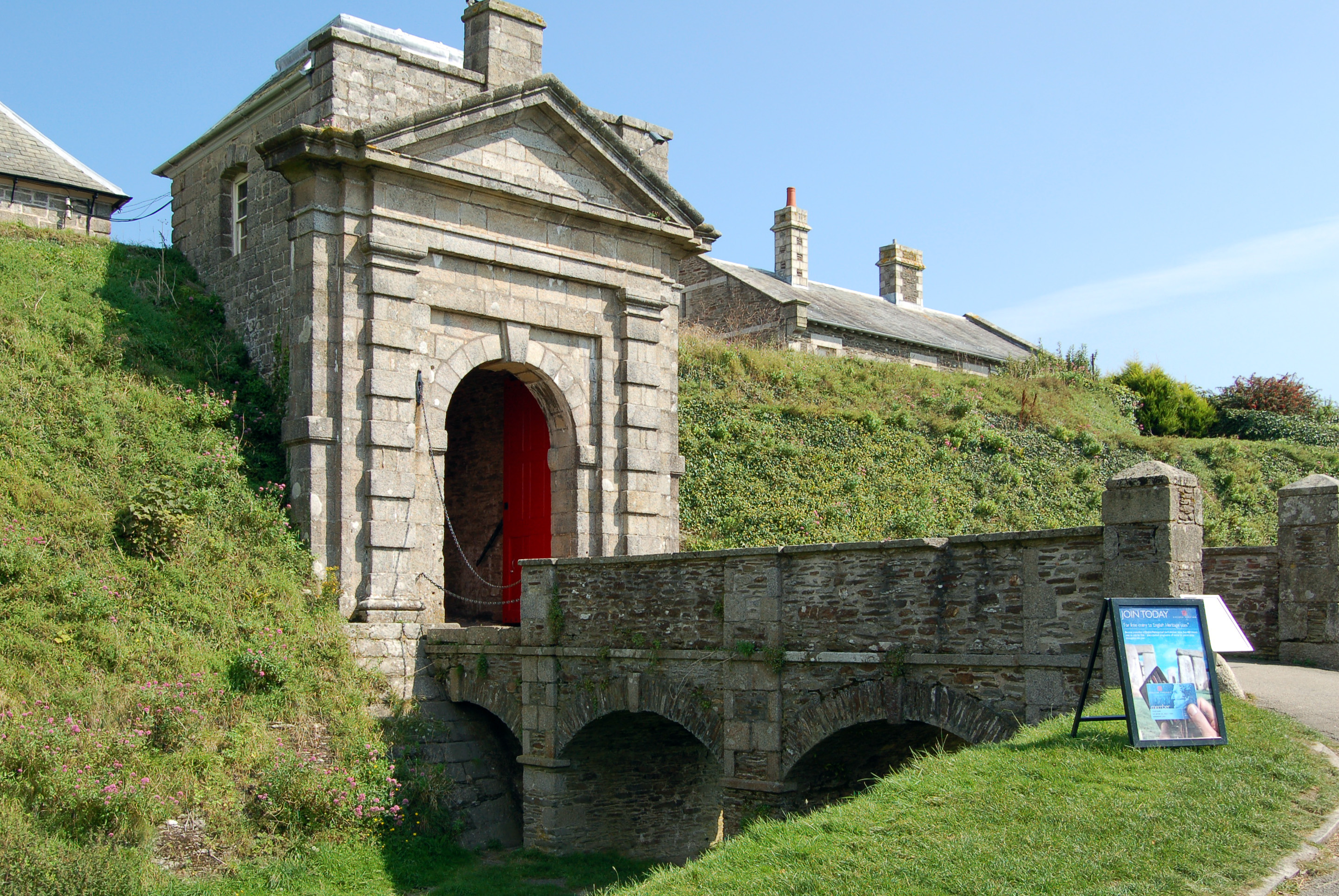 The main gateway into Pendennis Castle, Falmouth.